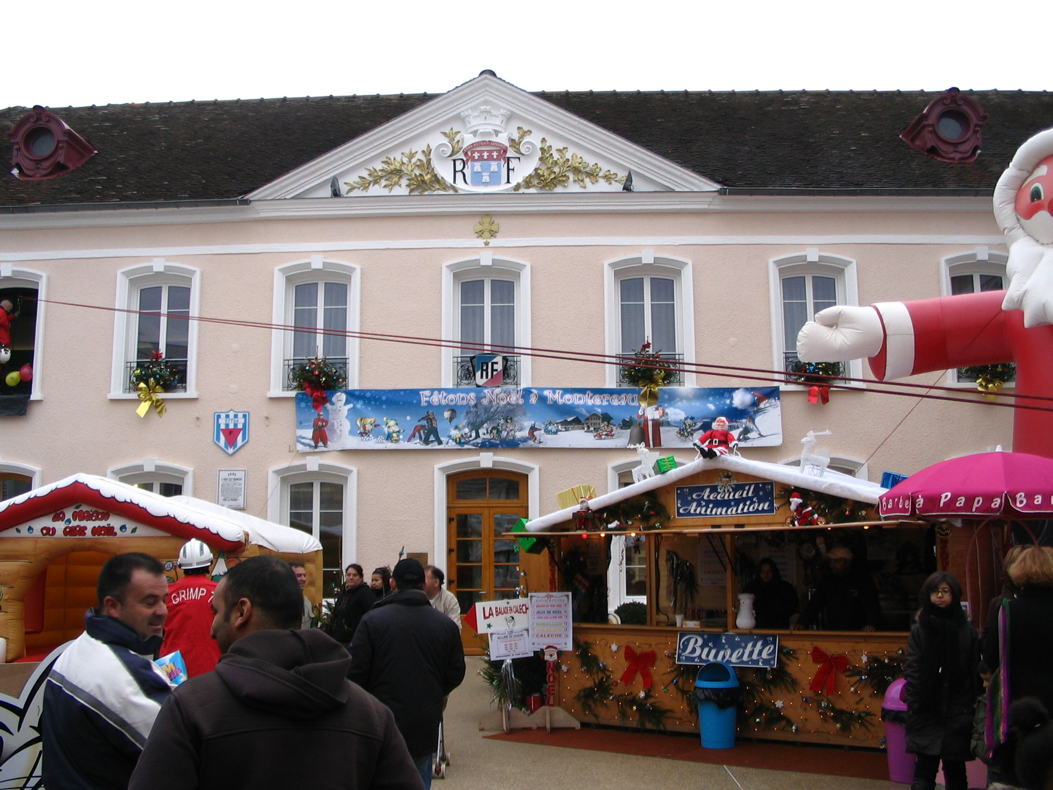 The town hall of Montereau-Fault-Yonne, Seine-et-Marne, France, a few weeks before Christmas.